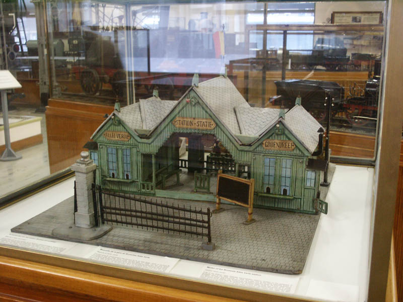 Maquette of the 1835 groendreef staton in the former railway museum of Brussels